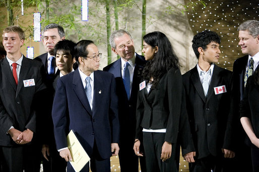 President George W. Bush and Japanese Prime Minister Yasuo Fukuda speak with United States J-8 representative Manogna Manne of Pleasanton, Calif., a member of the J-8 young leaders from the Group of Eight countries, attending the 2008 G-8 Summit in Toyako, Japan.